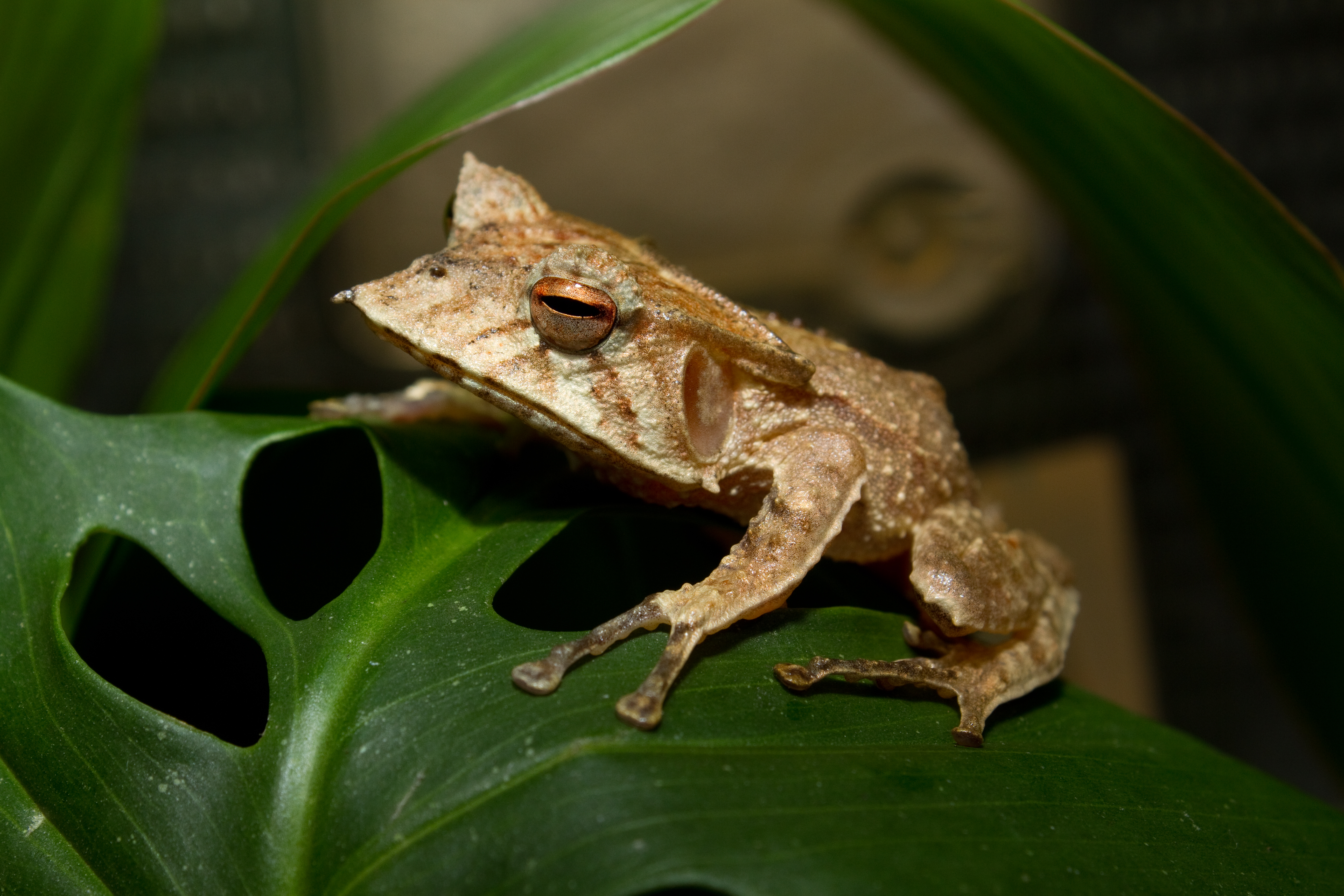 panamajuly2011 (93 of 133)